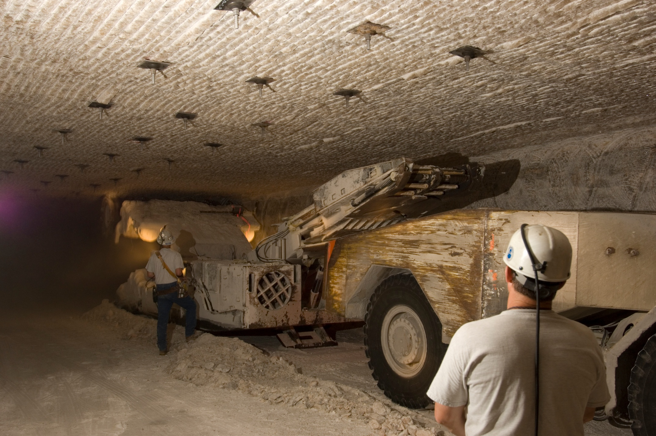 Mining crews at the Department of Energy’s Waste Isolation Pilot Plant mine the north end of the WIPP repository to support new salt studies. Mining crews recently began tunneling areas in the north end of the 2,150-foot-deep Waste Isolation Pilot Plant (WIPP) repository to support a new round of salt studies. Known as the Salt Disposal Investigations (SDI), the studies are designed to test the geologic response of salt to elevated temperatures.